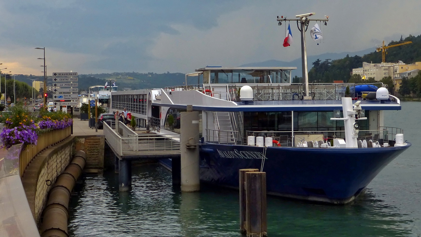 River cruise ship Avalon Scenery on the Rhone at Vienne, France